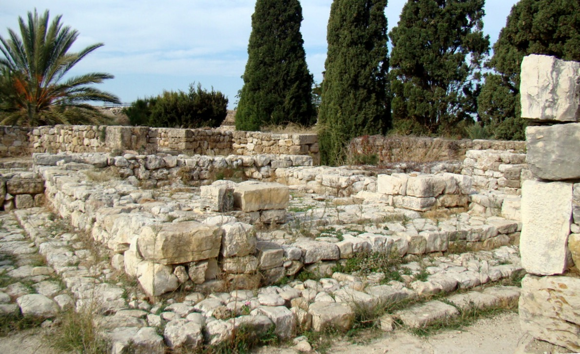 L-Shaped Temple (Sanctuary of El or Resheph). Byblos